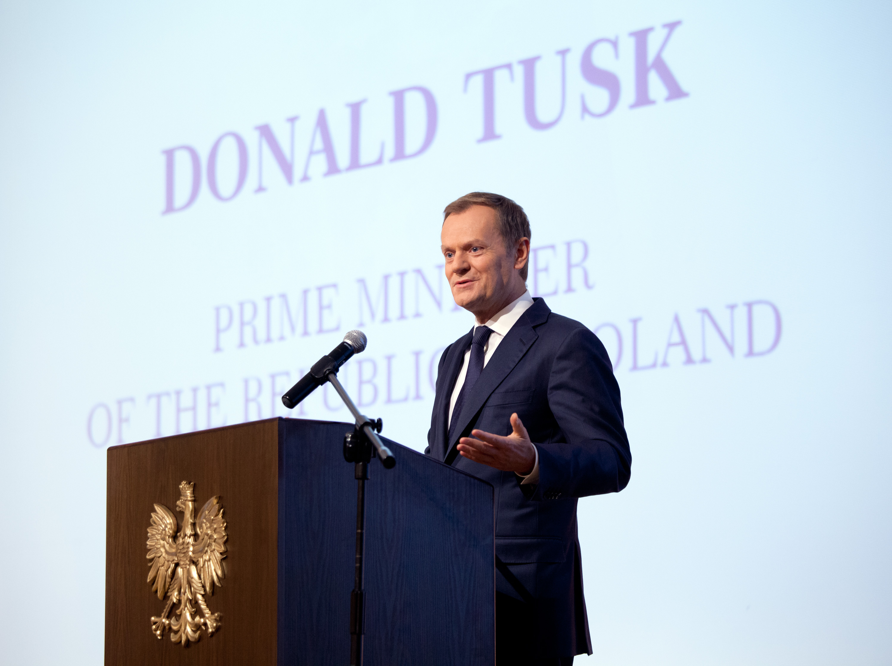 Donald Tusk's speech at the 2nd edition of the Annual NBP Conference on The Future of the European Economy